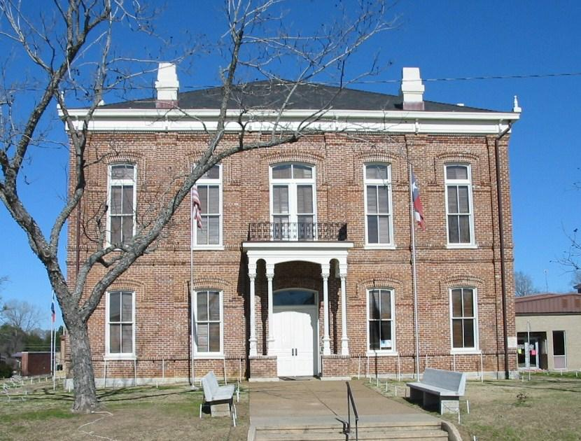 The 1886 Leon County Courthouse located in Centerville, Texas was designed by architect George Edwin Dickey of Houston.